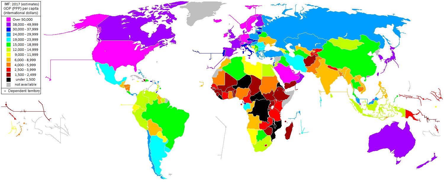 GDP (PPP) per capita by country, based on the map File:GDP PPP per capita 2009 IMF.png , with the addition of South Sudan